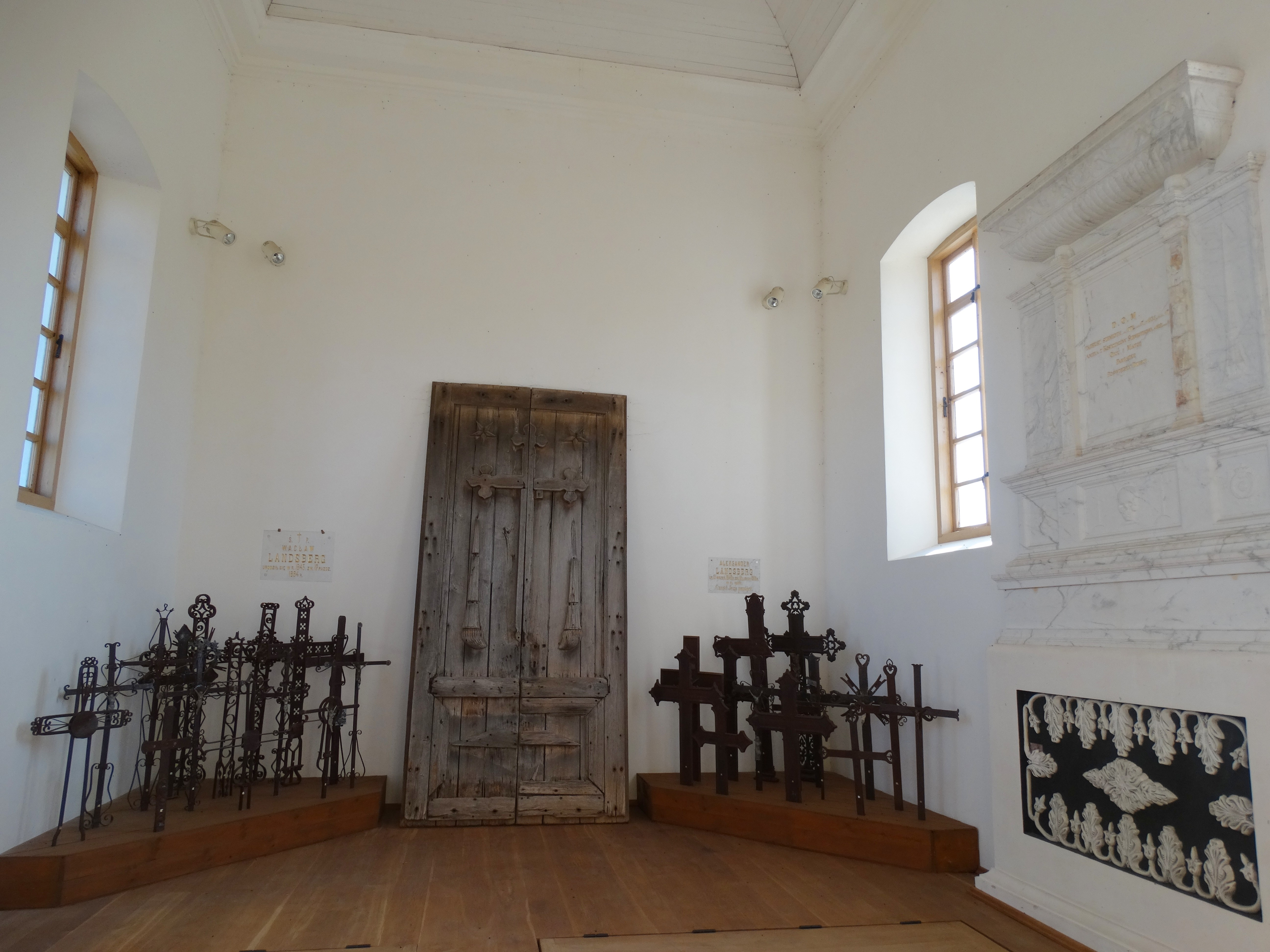 Cemetery Chapel, interior, Šiaulėnai, Radviliškis District, Lithuania